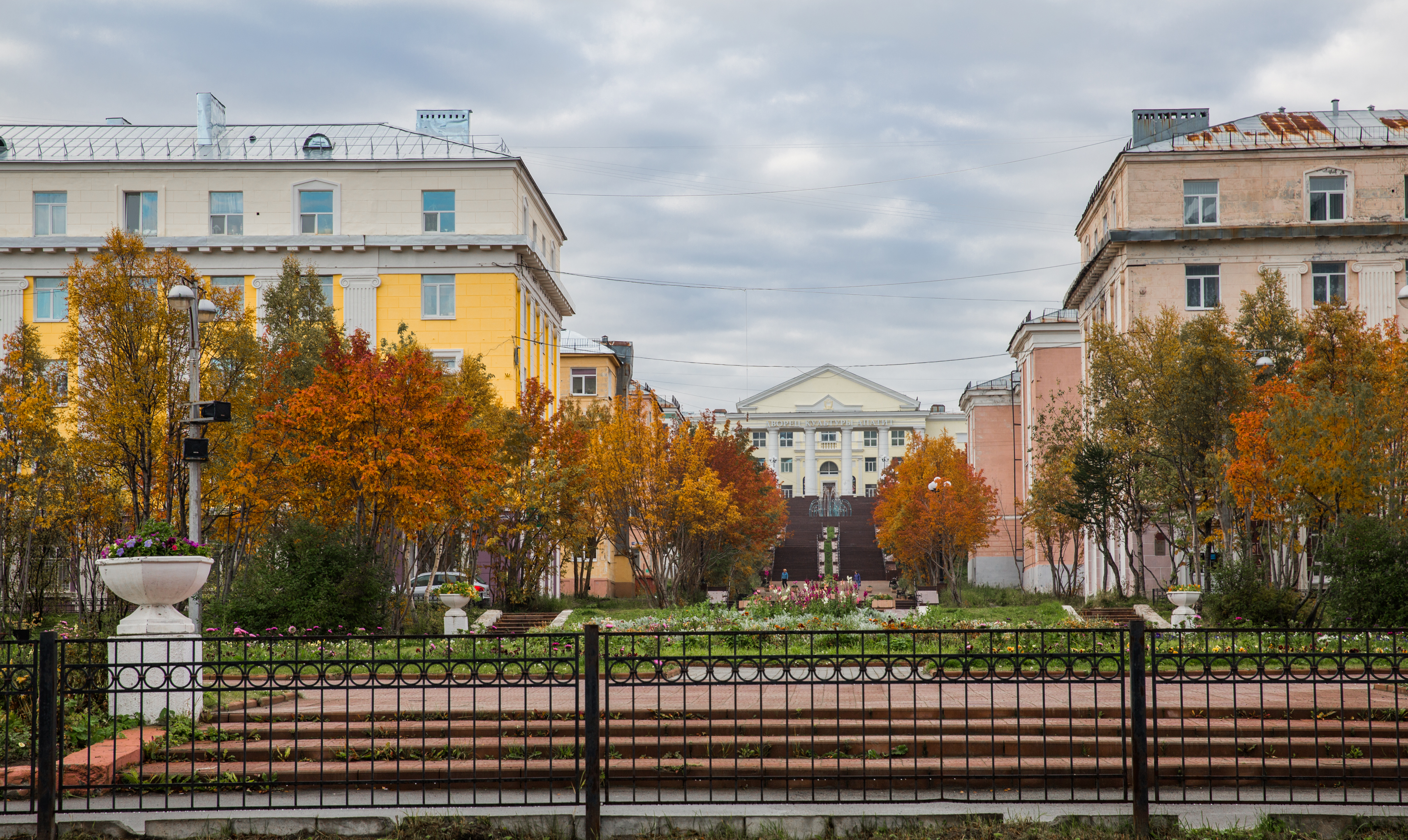 Kirovsk, Murmansk Oblast, Russia, Center of the city